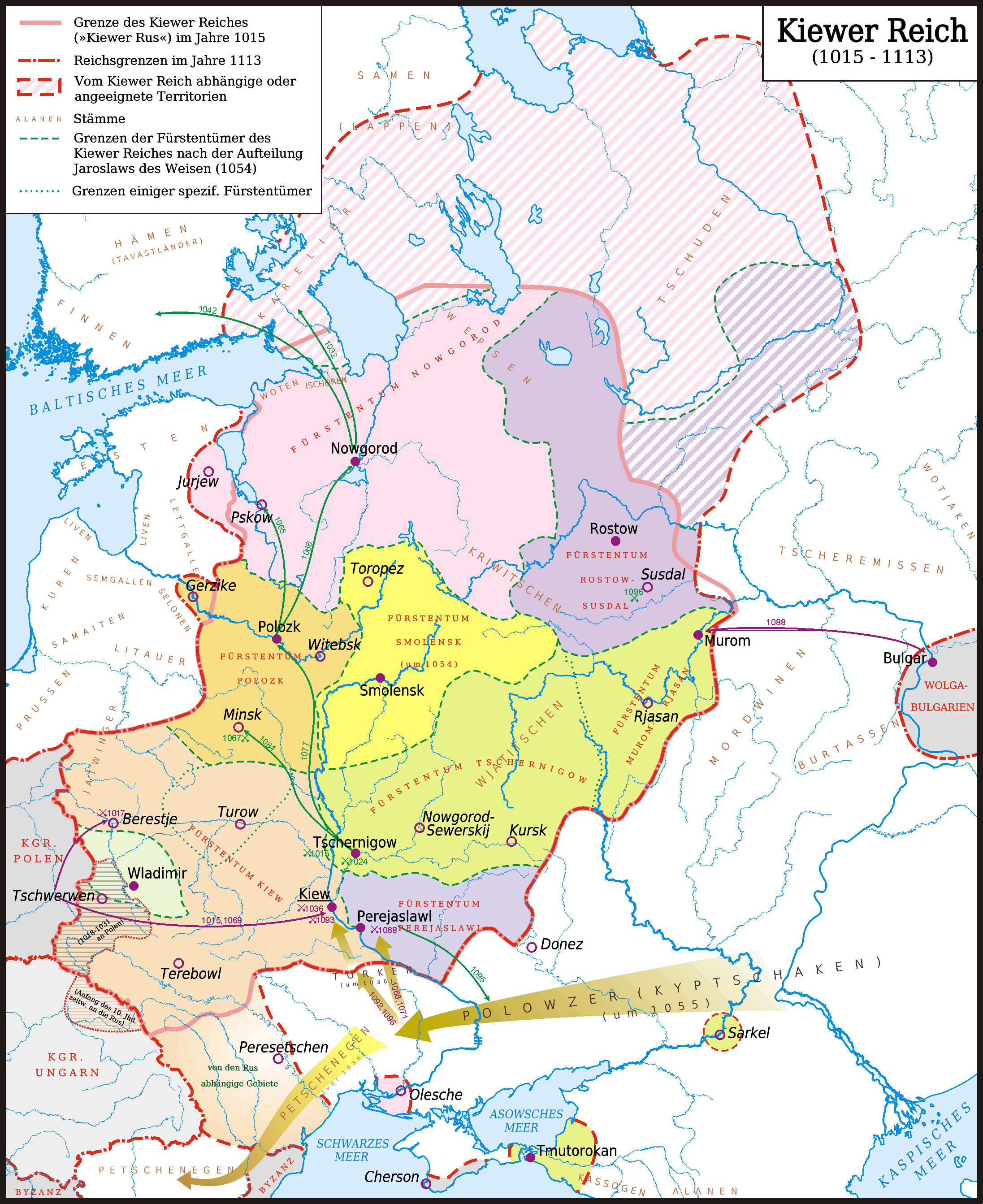 Map - Kievan Rus in 1015-1113.